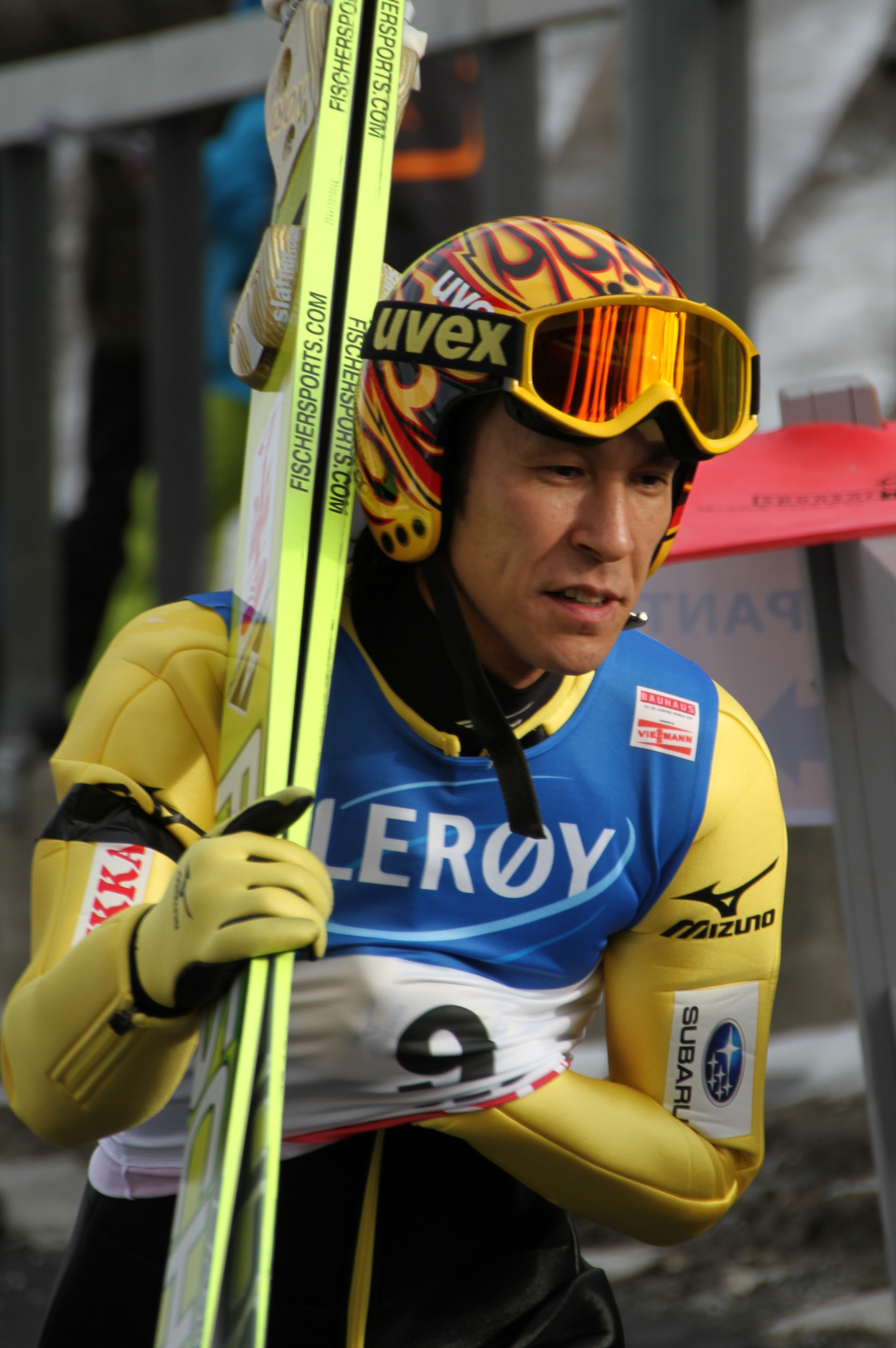 Holmenkollen, Oslo (Norway). First round of FIS 2011-12 World Cup Ski Jumping, at the third last tournament that season.